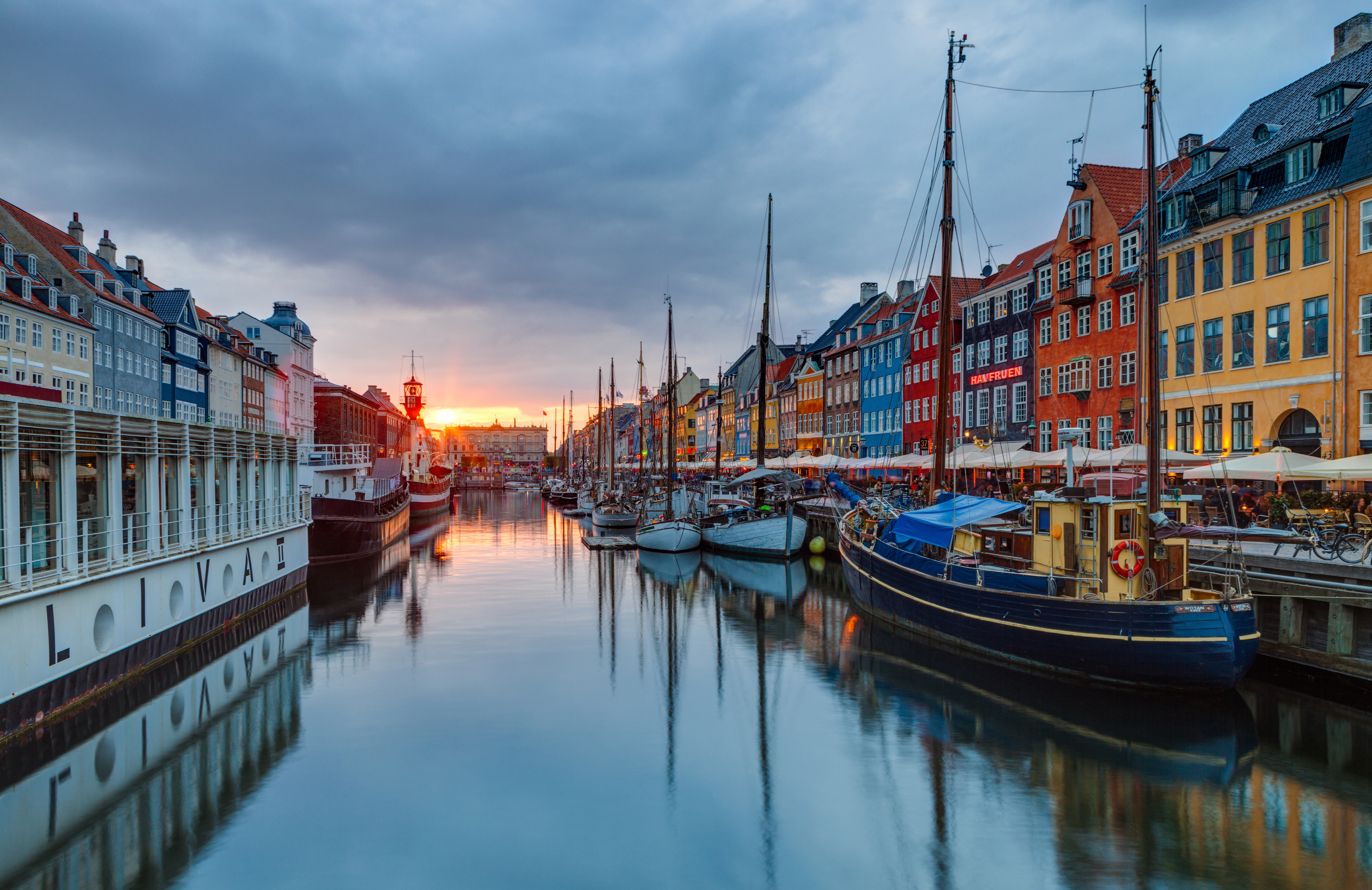 Nyhavn, district in Copenhagen, Denmark.